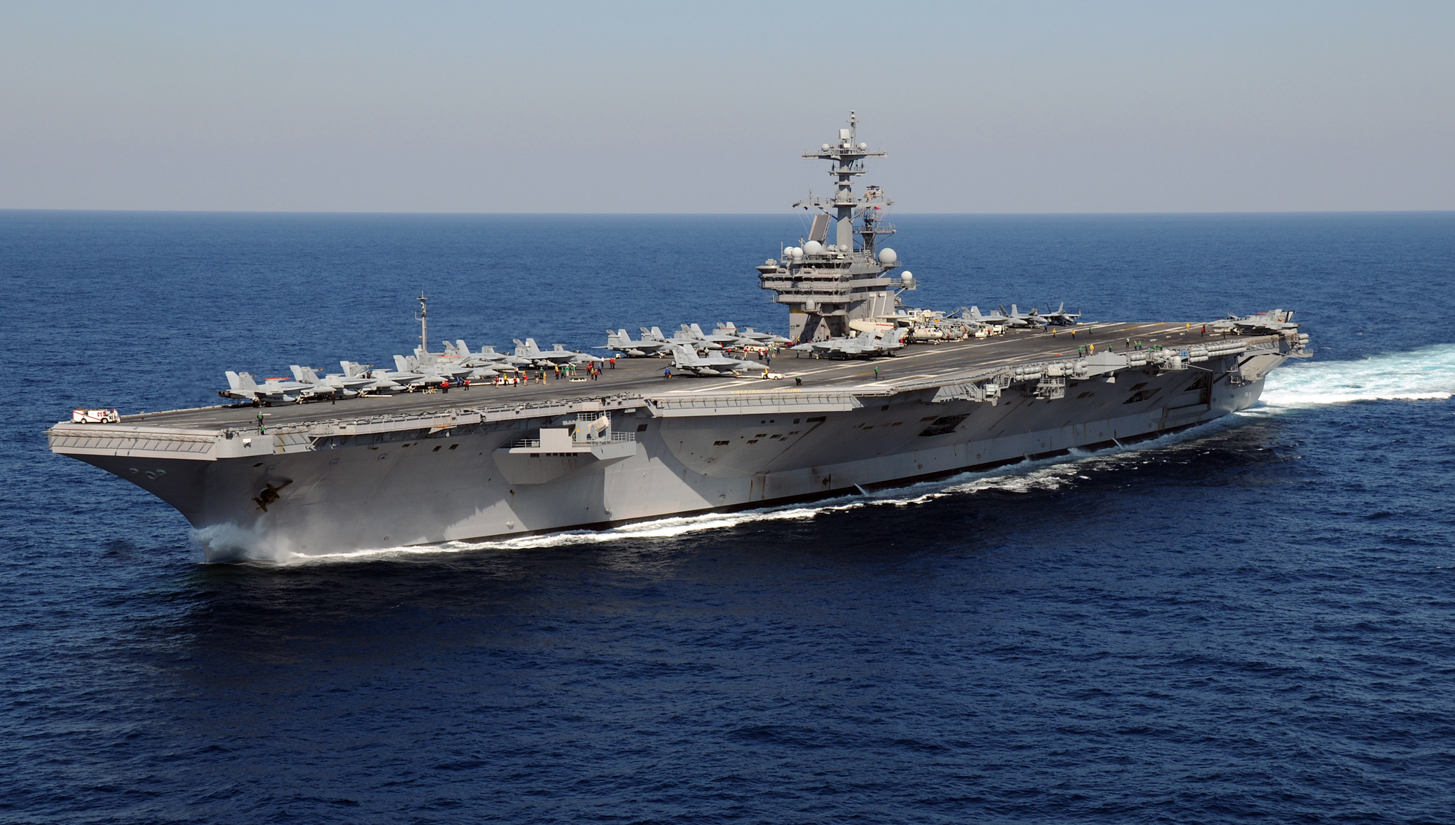 ATLANTIC OCEAN (Jan. 29, 2011) The aircraft carrier USS George H.W. Bush (CVN 77) is underway in the Atlantic Ocean. George H.W. Bush is underway conducting a composite training unit exercise. (U.S. Navy photo by Mass Communication Specialist 3rd Class Nicholas Hall/Released)